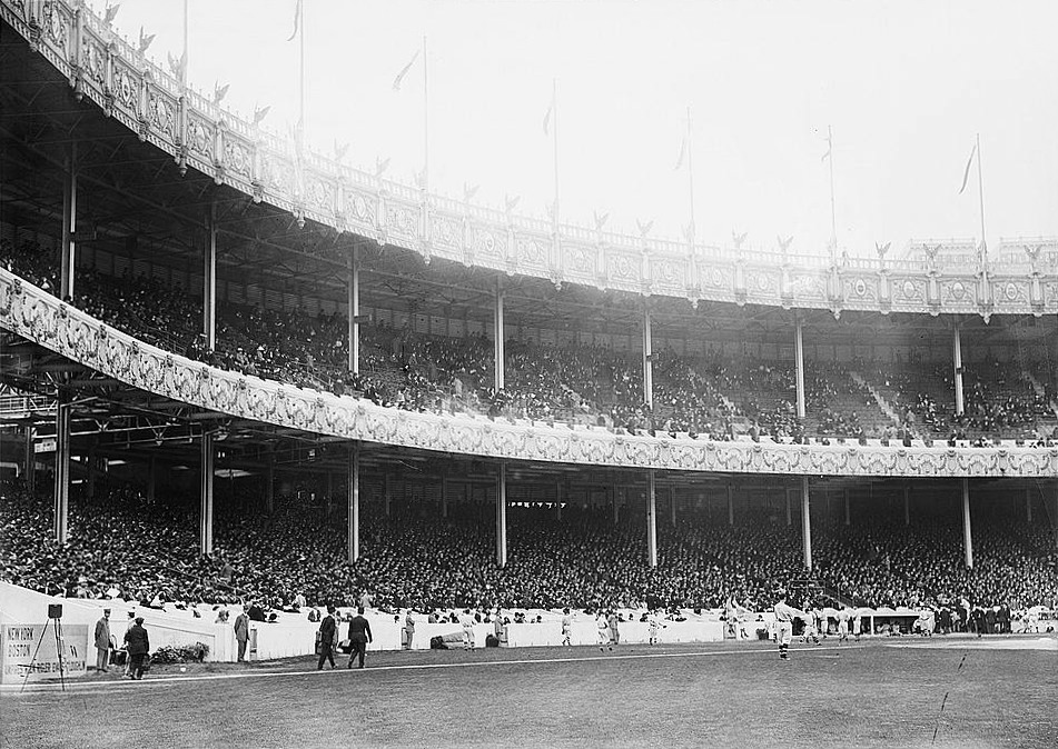 Game 1 of the 1912 World Series, Polo Grounds, Oct. 8, 1912. Library of Congress call number LC-B2- 2438-8